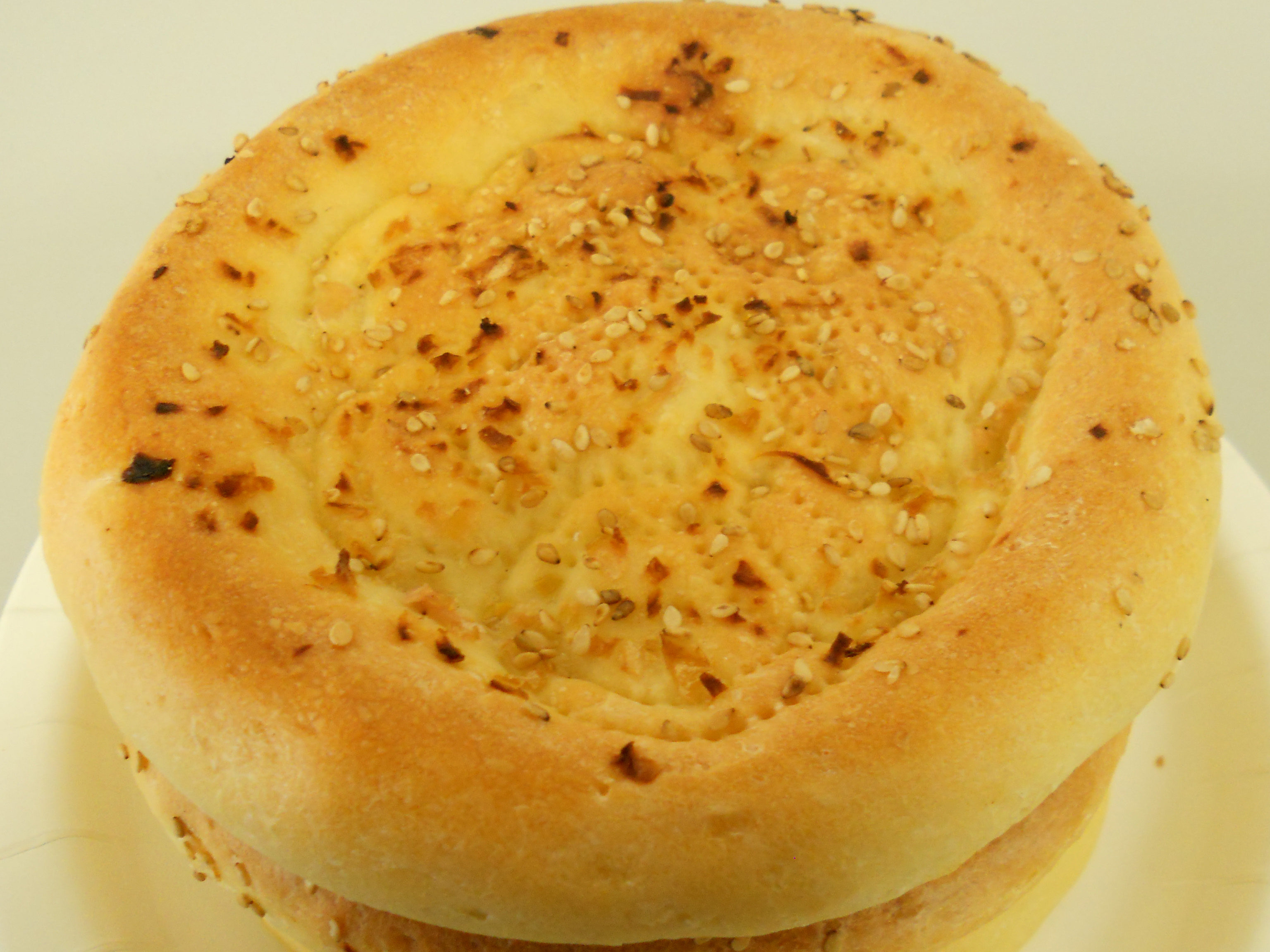 nan (naan) Uyghur style.